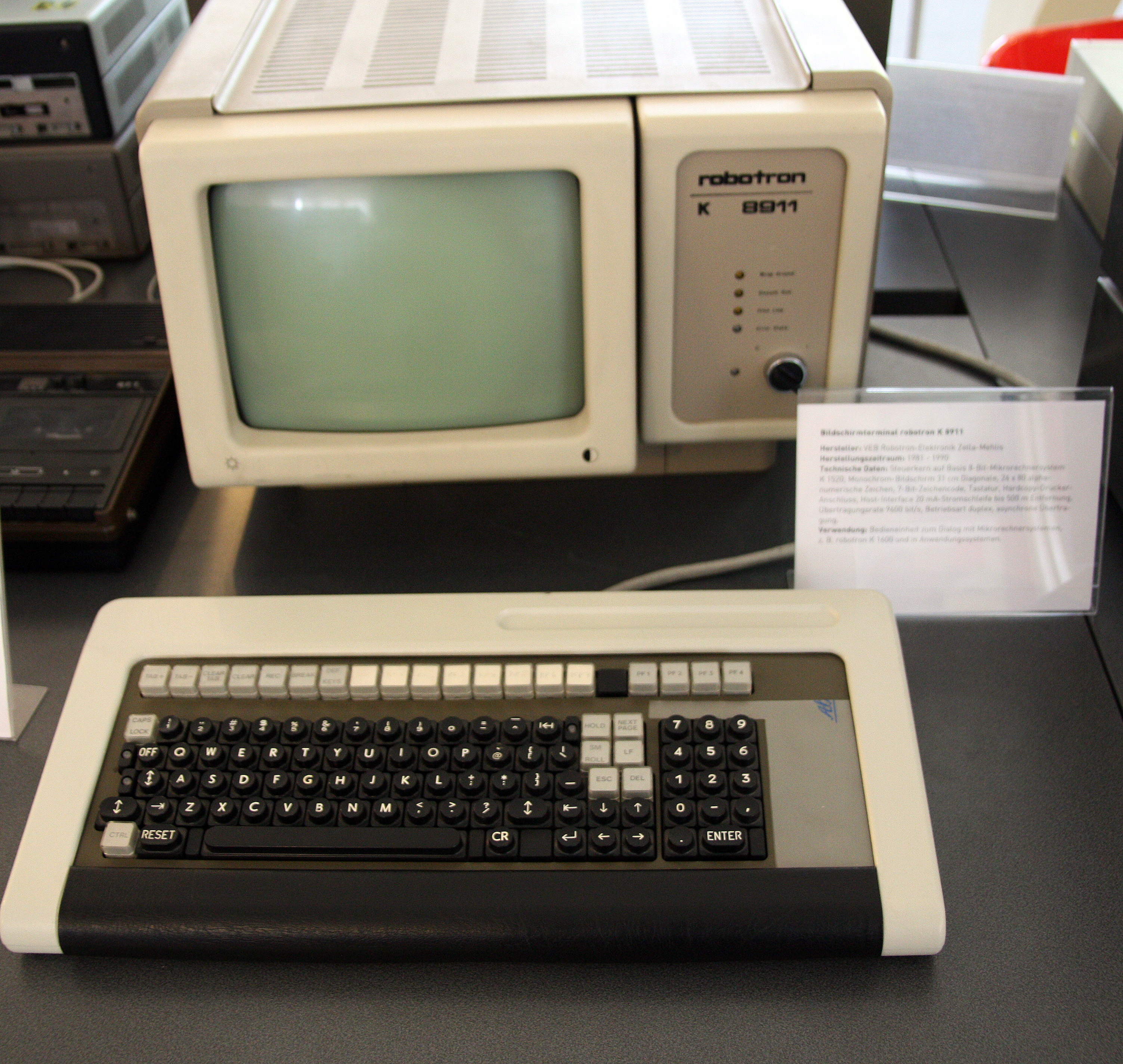 Robotron Computer Terminal K8911, recorded in the Technical Collections Dresden